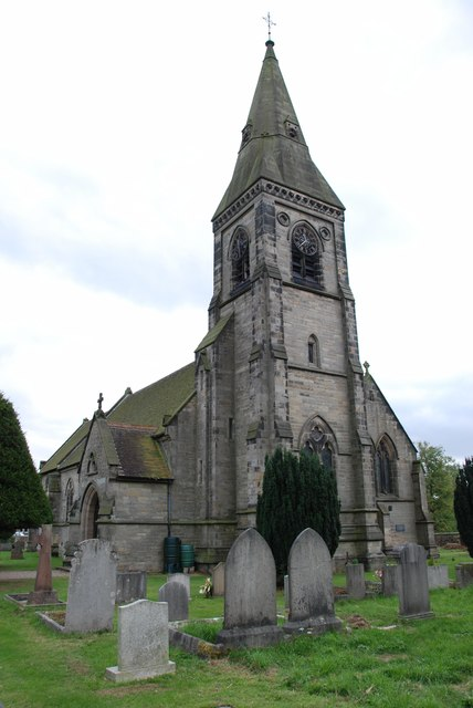 All Saints' parish church, Rangemore, Staffordshire, seen from the northwest